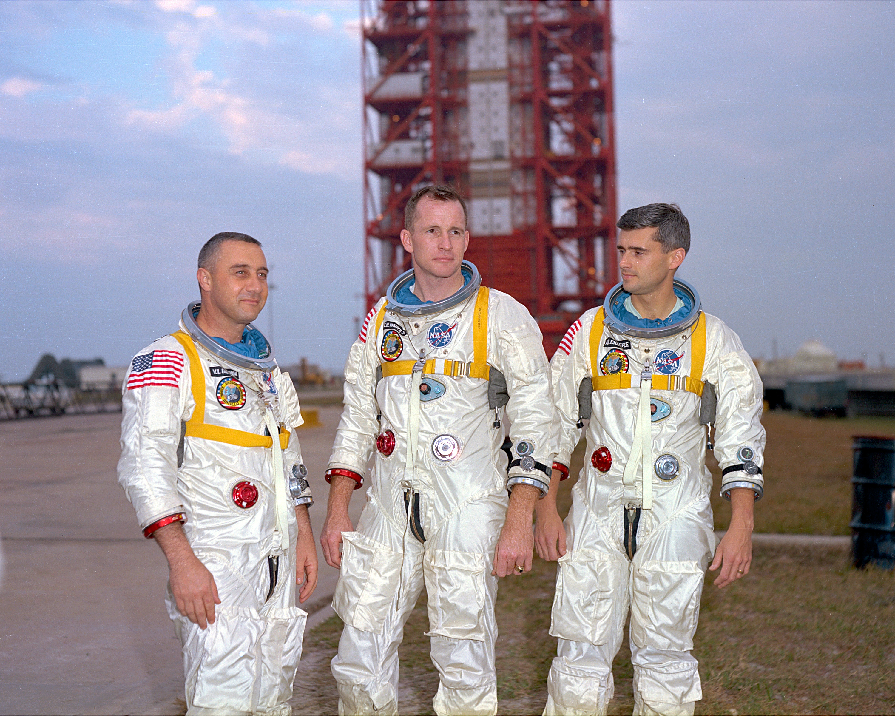 Astronauts (left to right) Gus Grissom, Ed White, and Roger Chaffee, pose in front of Launch Complex 34 which is housing their Saturn 1 launch vehicle. The astronauts died ten days later in a fire on the launch pad.